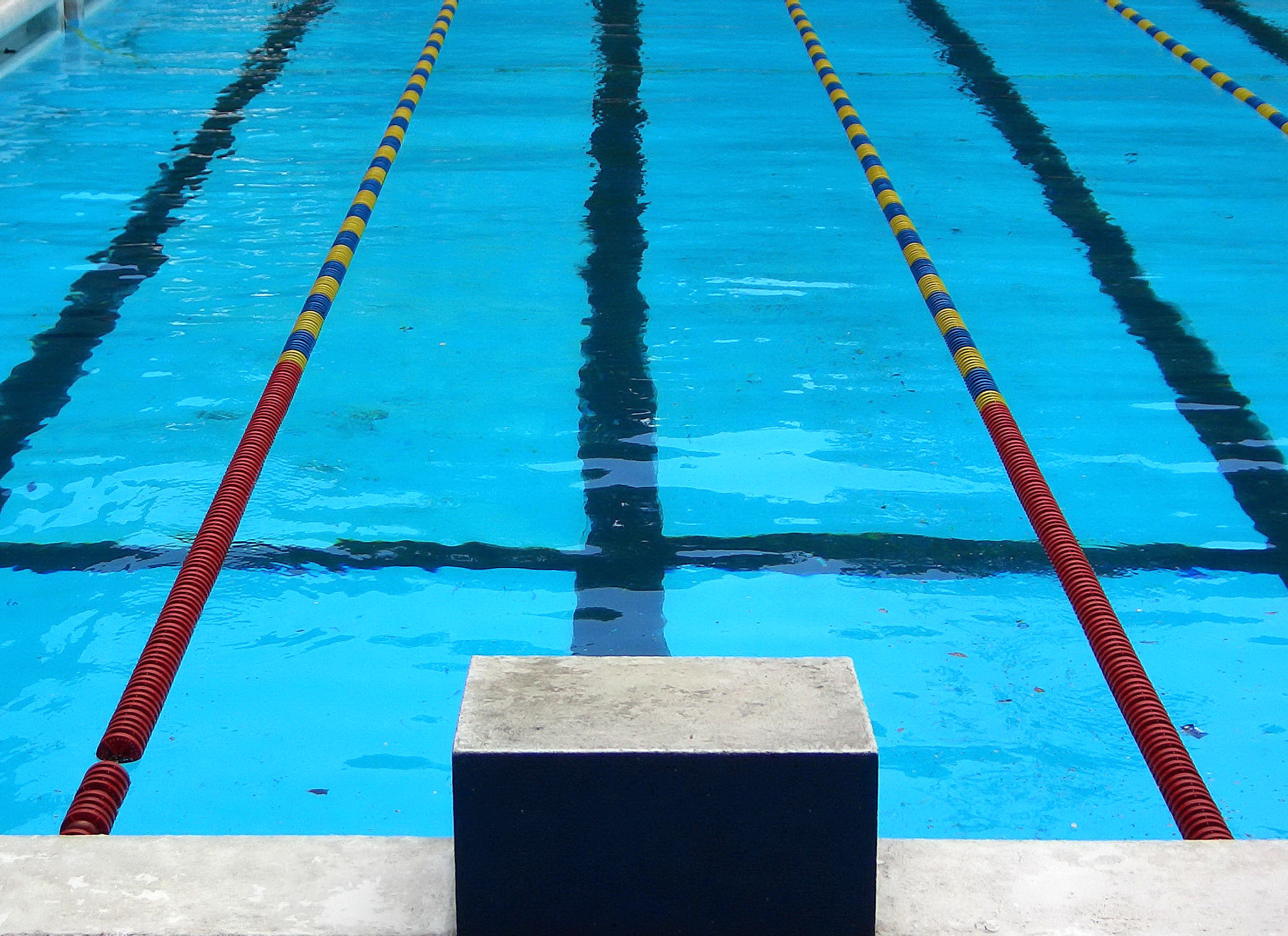 View from the starting block of a competition swimming pool.